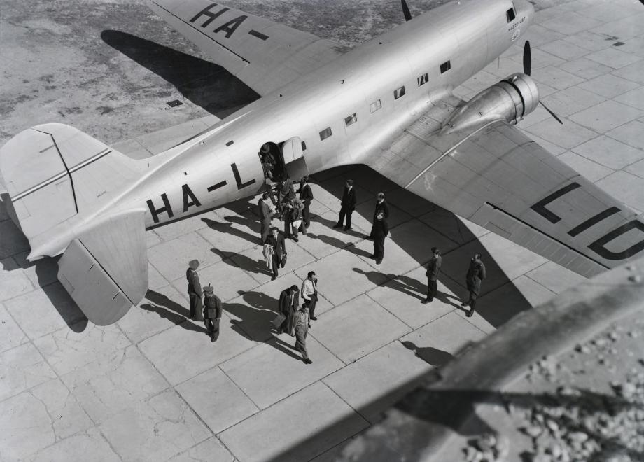 Lisunov Li–2P on Budaörs Airport, 1946